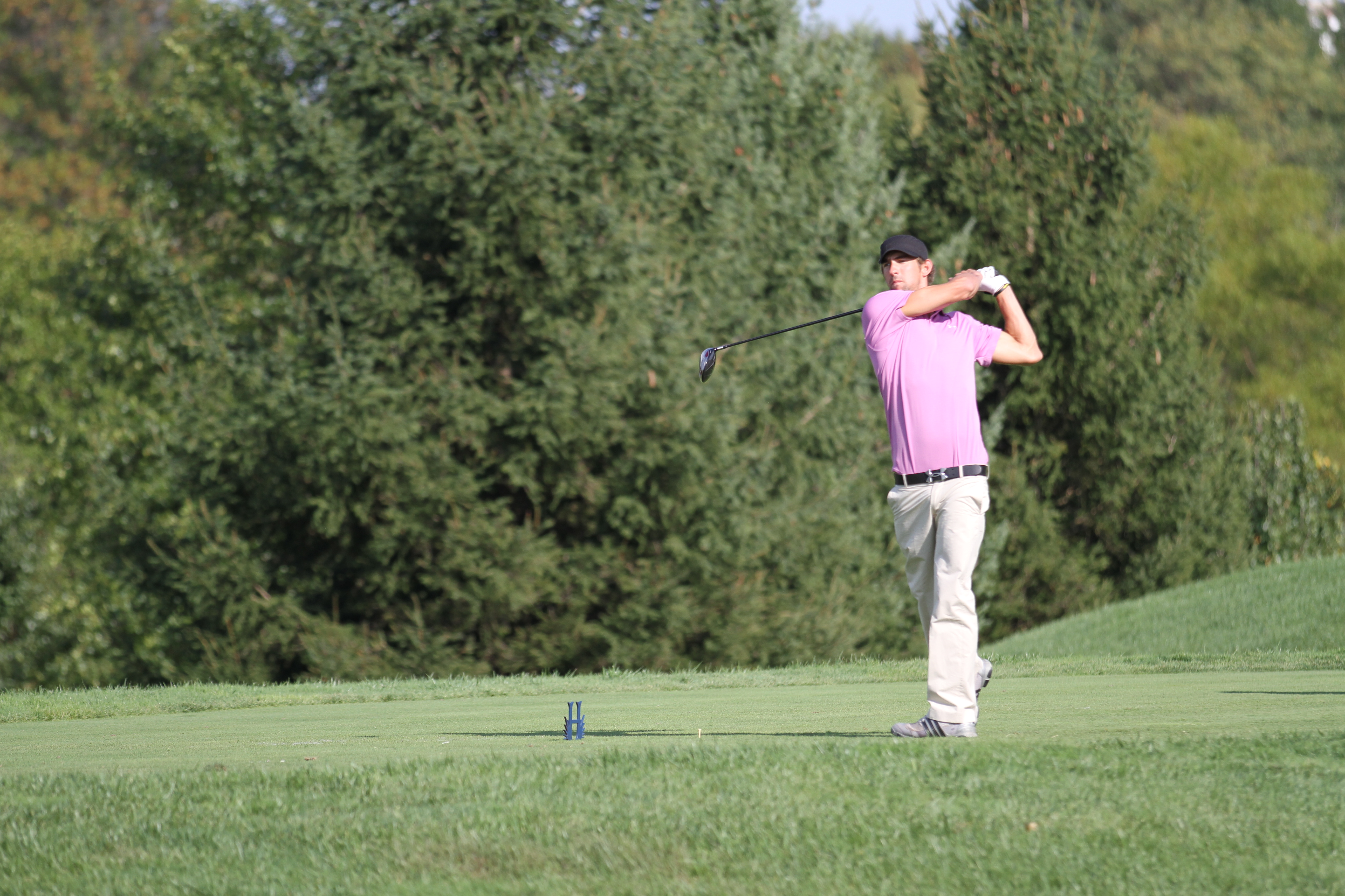 American swimmer Michael Phelps at the Michael Phelps Foundation Golf Classic 2010.